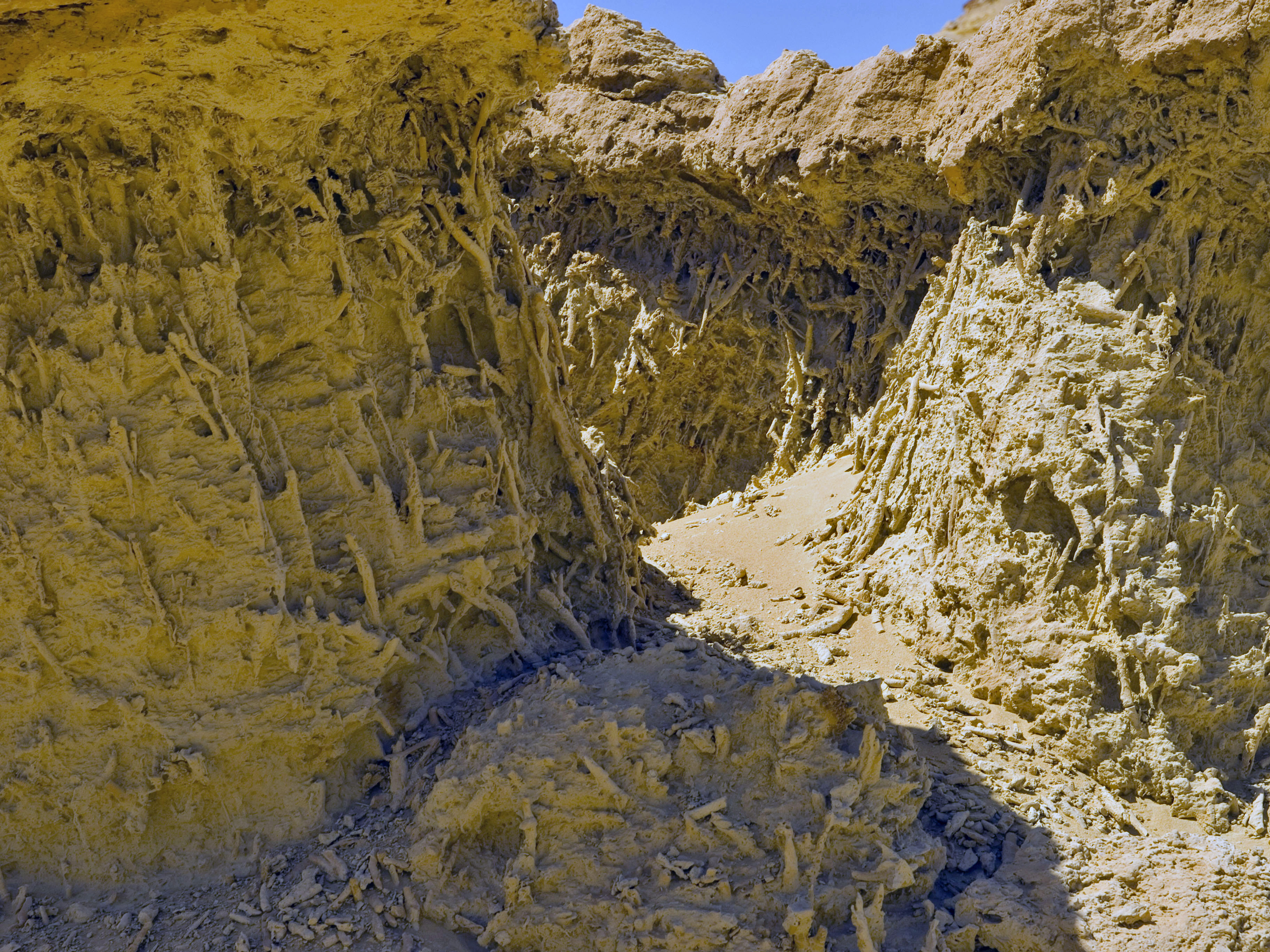 Mangroves were a key part of the estuarian ecosystem in the wadi 40 million years ago. This strata extends over many hectares and most of the whale skeletons are adjacent to it.